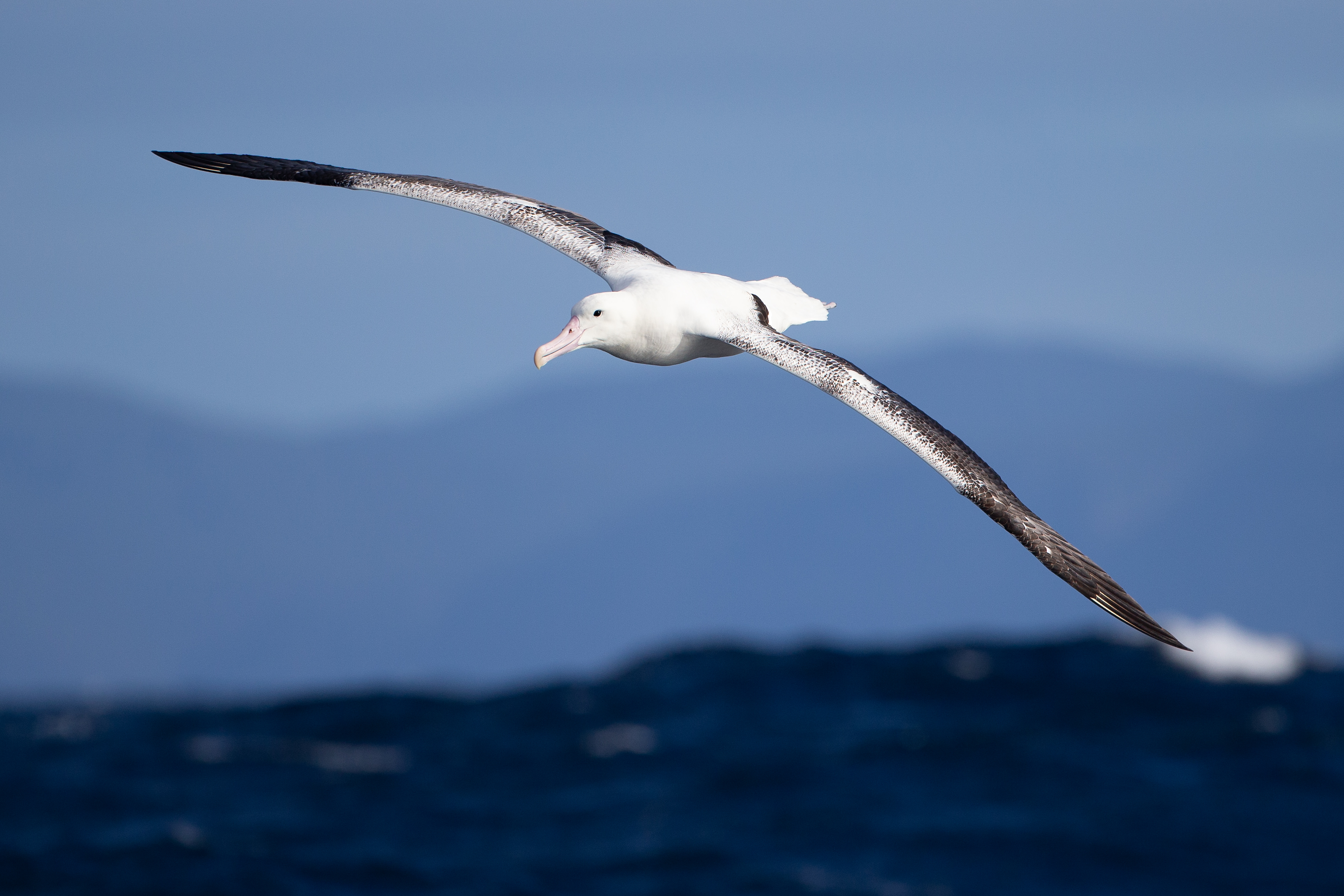 Southern Royal Albatross (Diomedea epomophora), east of the Tasman Peninsula, Tasmania, Australia.